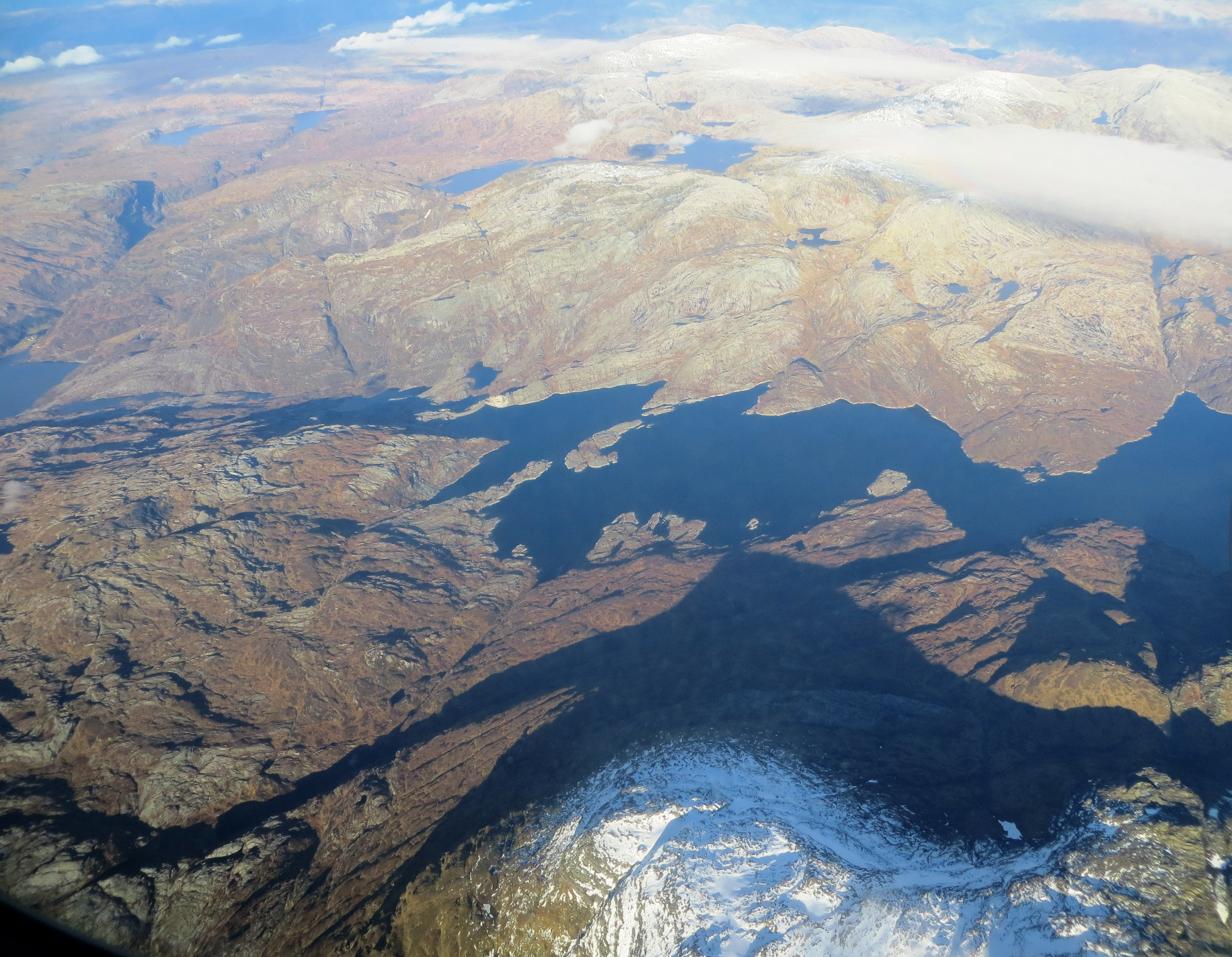 Aerial view from the south, over Kvam municipality in central Hordaland (Hardanger). Norway